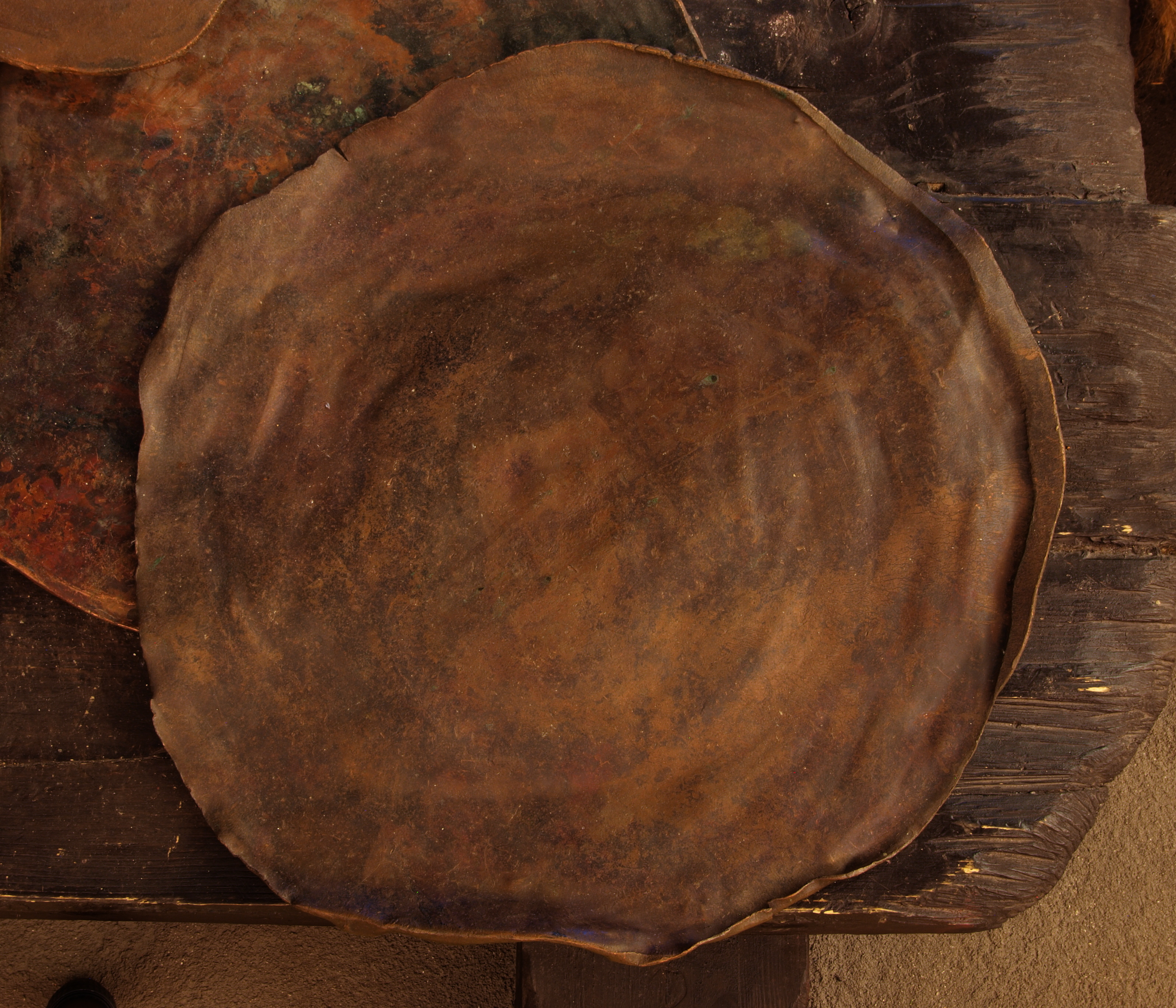 A round hammered copper ingot. Found 1981 in the wrek of a sunken sailing boat of the 17th century in river Elbe near Wittenbergen in Hamburg-Rissen, Germany. Photographed at Museum für Hamburgische Geschichte, Hamburg, Germany